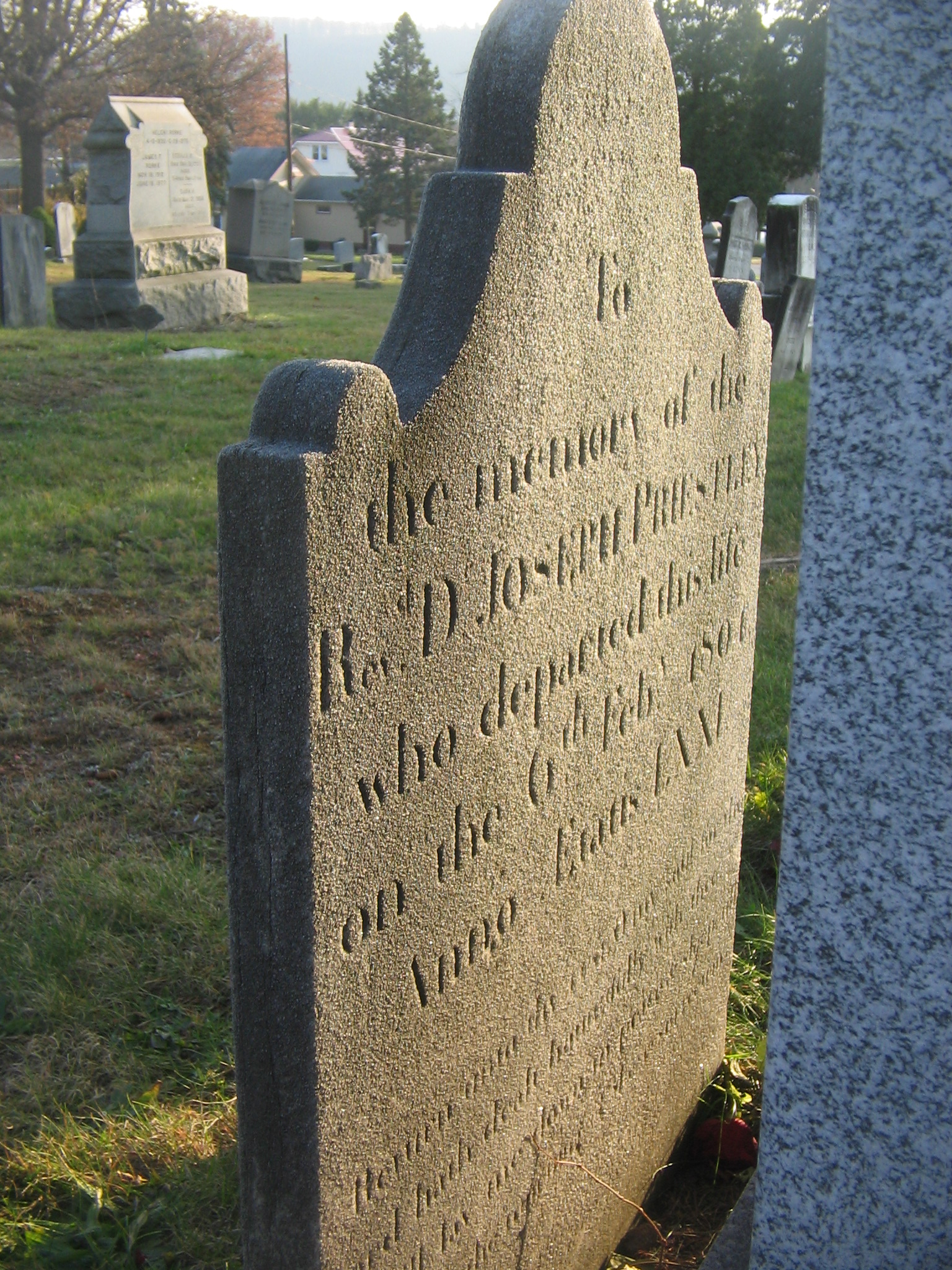 Gravestone of Joseph Priestley in Riverview Cememtery in Northumberland, Northumberland County, Pennsylvania, USA. Modern marker for Joesph erected in 1971 partially hides his original gravestone, gravestone for his son Henry is beside on right. Inscription reads "To / the memory of the / Rev. Dr. JOSEPH PRIESTLEY / who departed this life / on the 6th Feb. 1804 / Anno Ætatis LXXII (In the 72nd year of his age)" In smaller letters below it reads "Return unto thy rest, O my soul, for the / Lord hath dealt bountifully with thee. / I will lay me down in peace and sleep till / I awake in the morning of the resurrection".